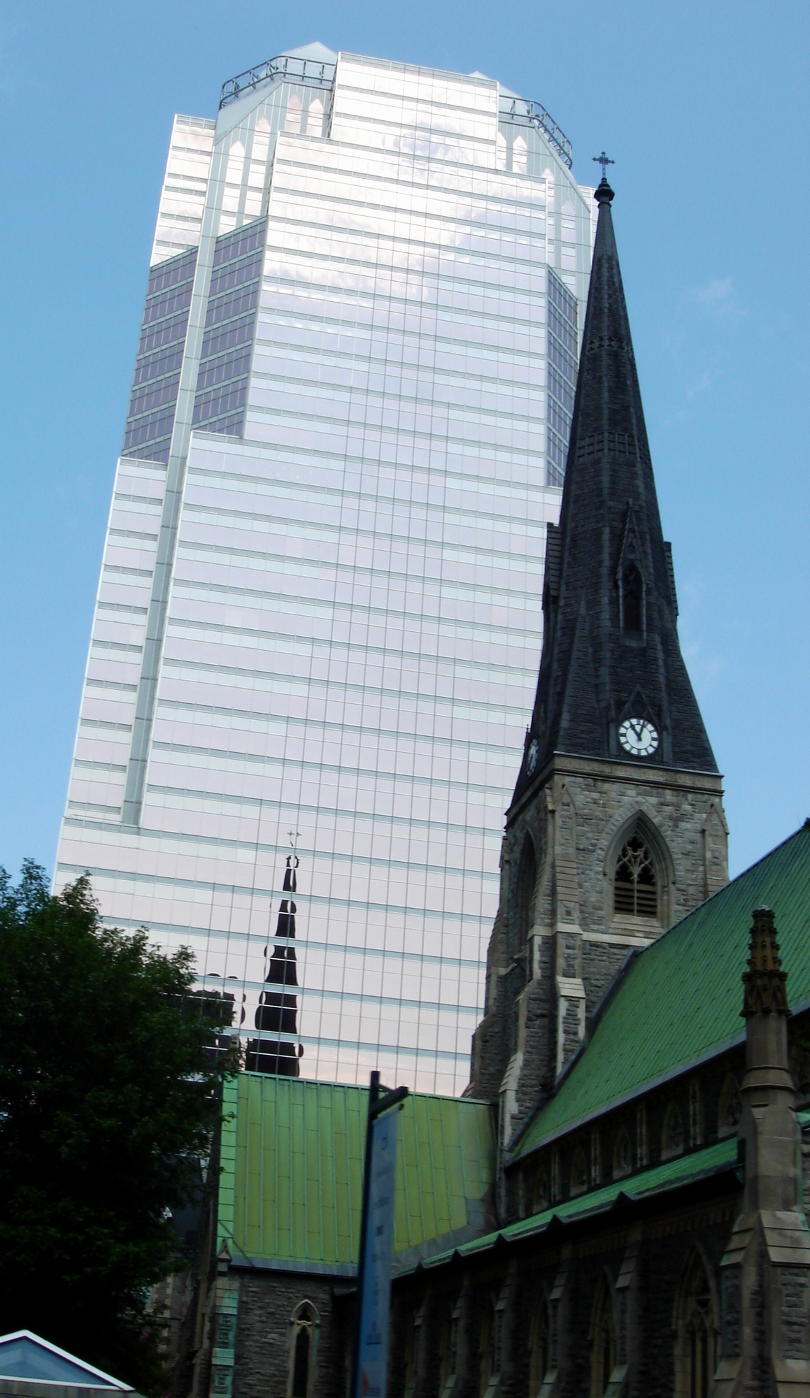 KPMG tower in Montreal, Canada